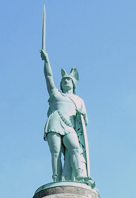 Monument of Hermann (Arminius) in Teutoburg Forest, Germany